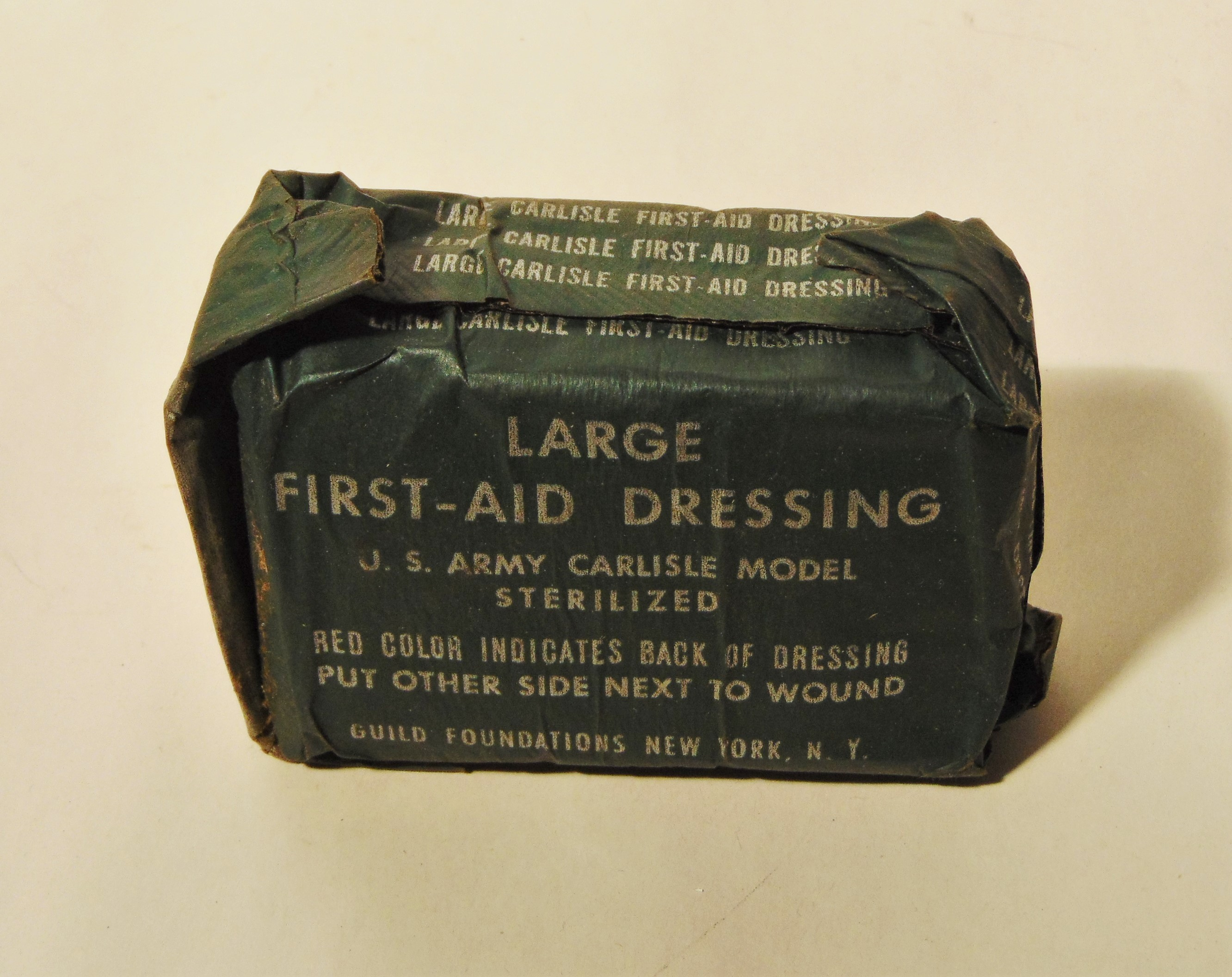 Large First-Aid Dressing, U.S. Army Carlisle Model Sterilized, packed in dark green packaging, rectangular model, New York. Photographed in the collection of the National Liberation Museum 1944-1945, the Netherlands, archive number 094.117